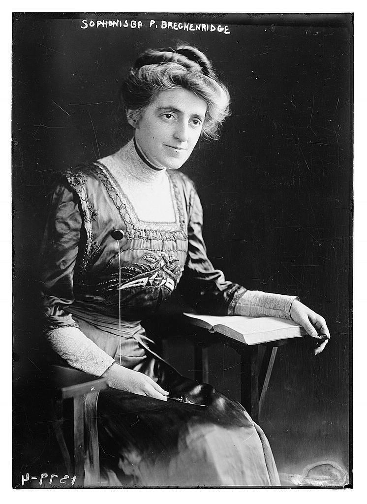 American activist Sophonisba Breckinridge Library of Congress TITLE: Sophonisba P. Breckenridge